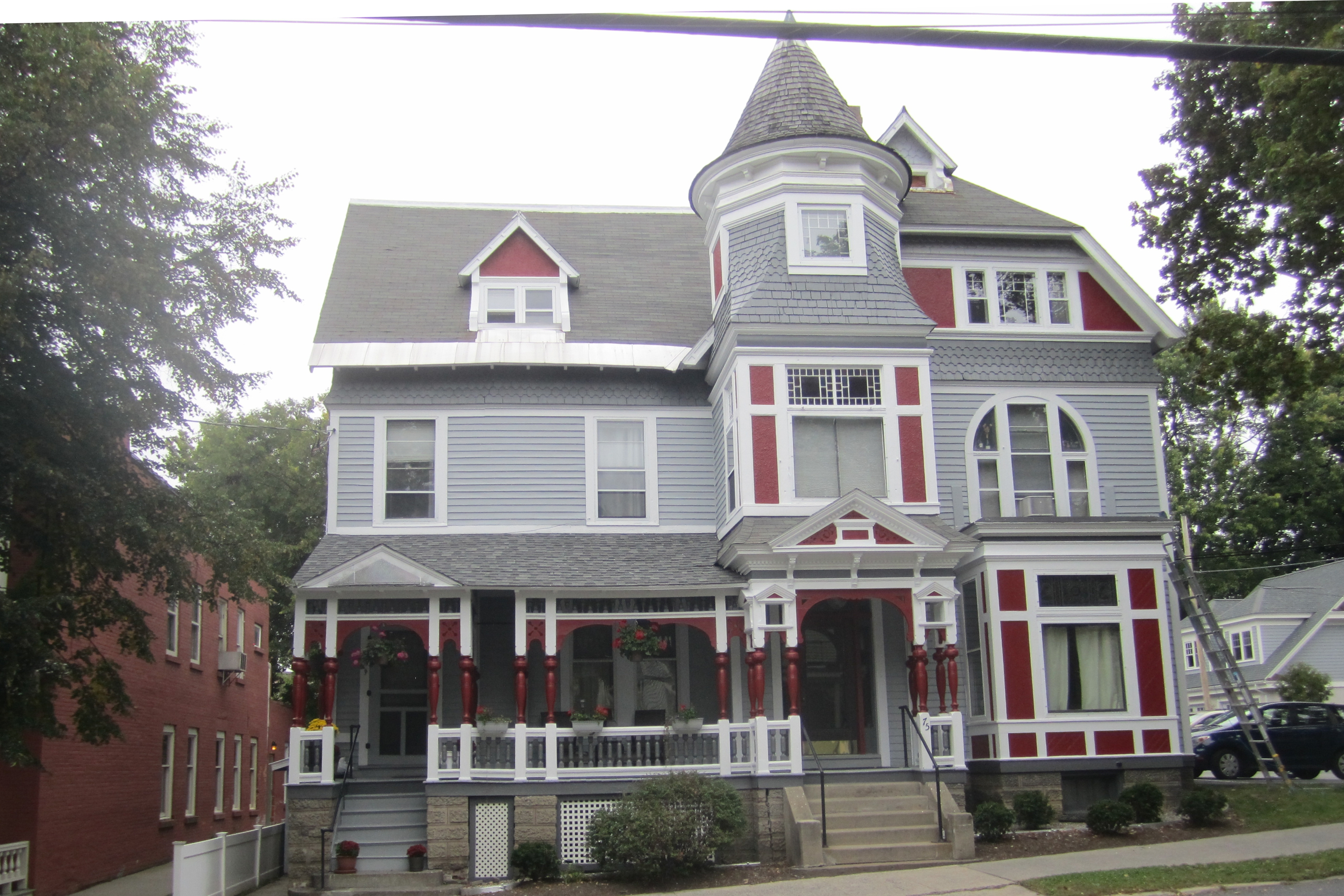 75 Caroline Street, Saratoga Springs NY. Designed by R. Newton Brezee for C.B. Thomas (1885-86)